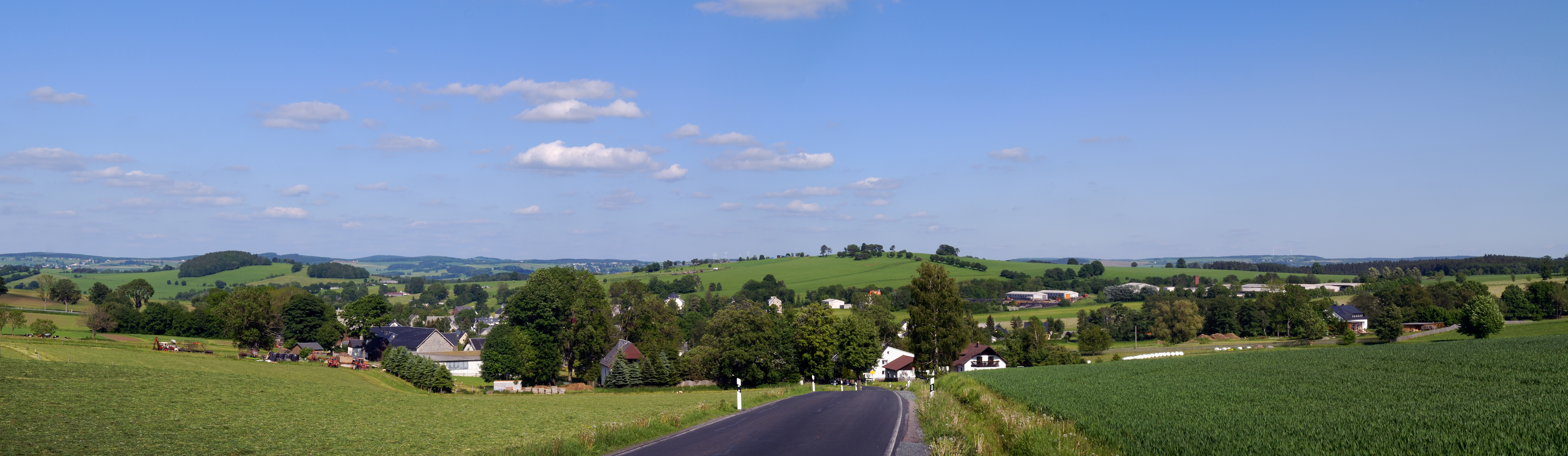 This image shows a panoramic view of Drebach, Saxony, Germany. It is a two segment panoramic image.